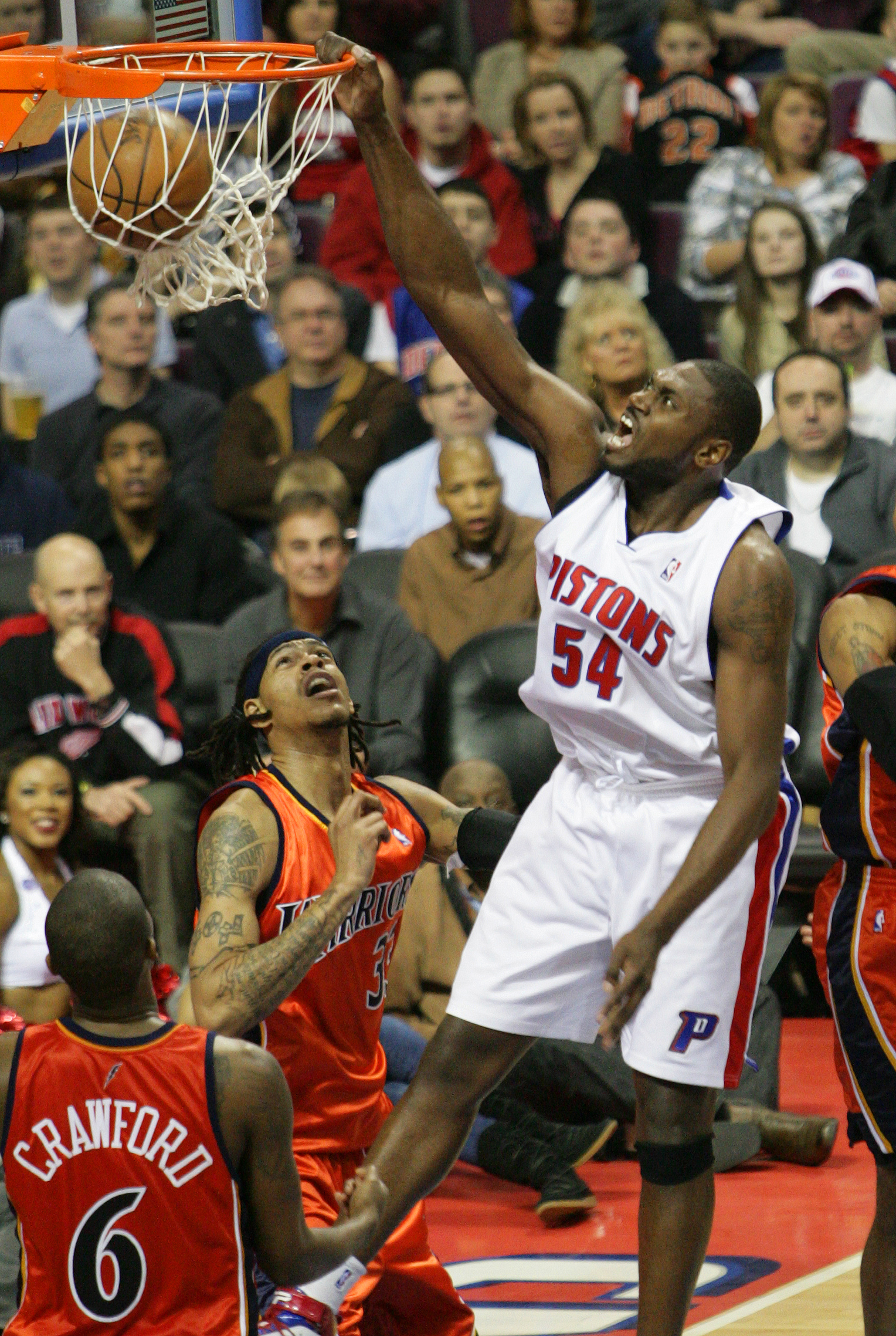 Jason Maxiell versus Golden State Warriors - 2009